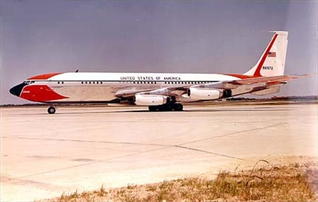 The U.S. Air Force Boeing VC-137A-BN (s/n 58-6972) in the early 1960s. THe USAF bought three commercial Boeing 707-153 (58-6970 to -6972) for use as VIP transports. When the U.S. president was aboard, the particular aircraft was designated as "Air Force One". All three aircraft were later converted to VC-137B with JT3D-3 turbofans. 58-6972 was delivered to the USAF on 30 June 1959, and was redesignated VC-137B when it was refitted with JT3D-3 turbofan engines in May 1963. It was finally scrapped in 1996 due to severe corrosion.